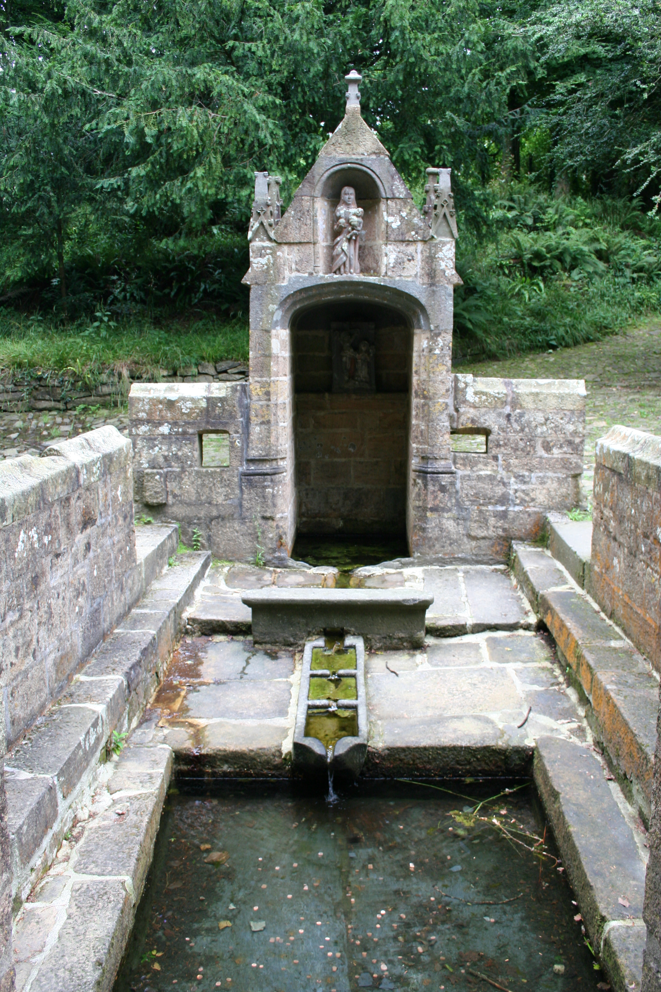 16th Fountain of the abbey of Daoulas (Britanny)